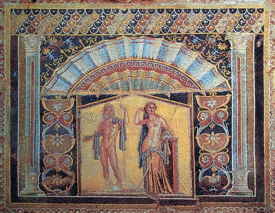 Herculaneum. Ancient Roman mosaic with Neptune and Amphitrite, on display in the "House of Neptune and Amphitrite".